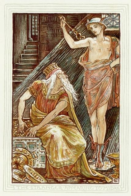 (Removed after reusableart request.)